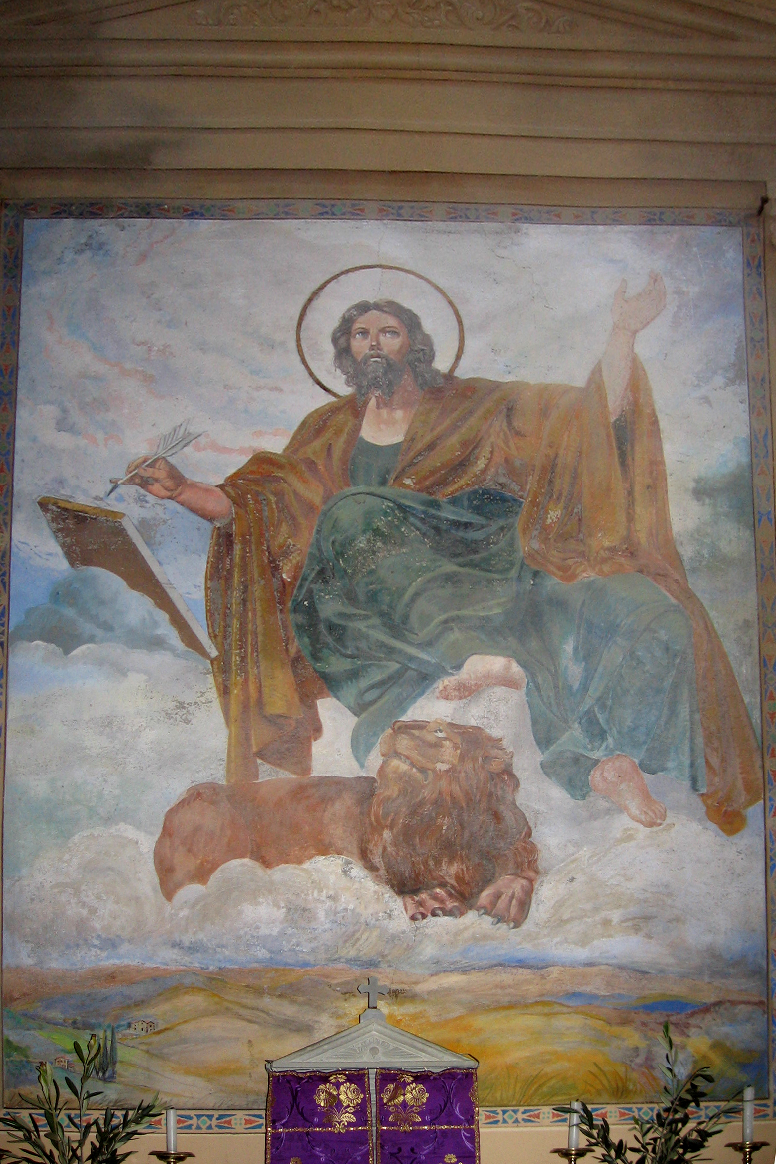 Tapestry located in the church of Saint Marcus the evangelist in Poggioni (Cortona - Italy) representing St Marcus